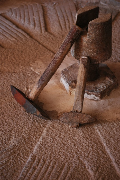 Tools to shape the stones of a water mill.